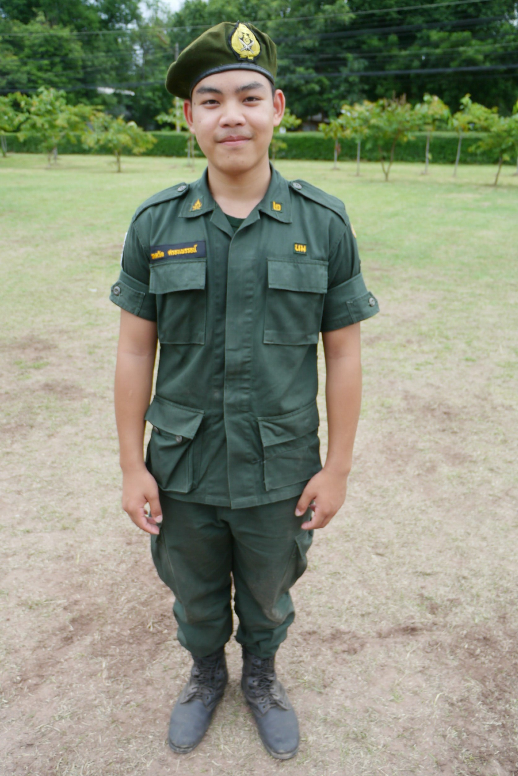 เครื่องแต่งกายนศท.